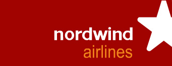 Nordwind logo